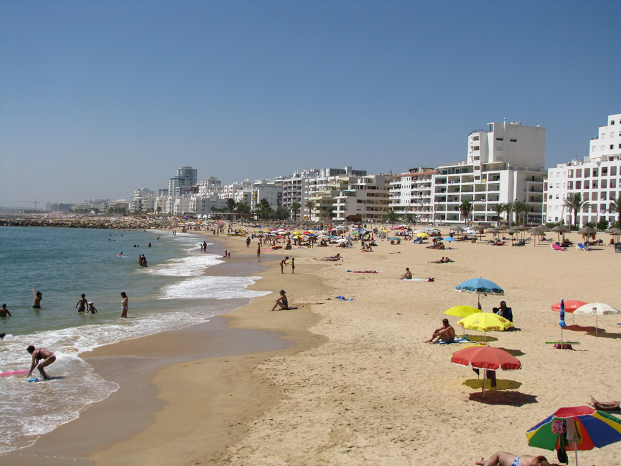 Praia da Gaivota at the eastern end of the town of Quarteira, Algarve, Portugal.